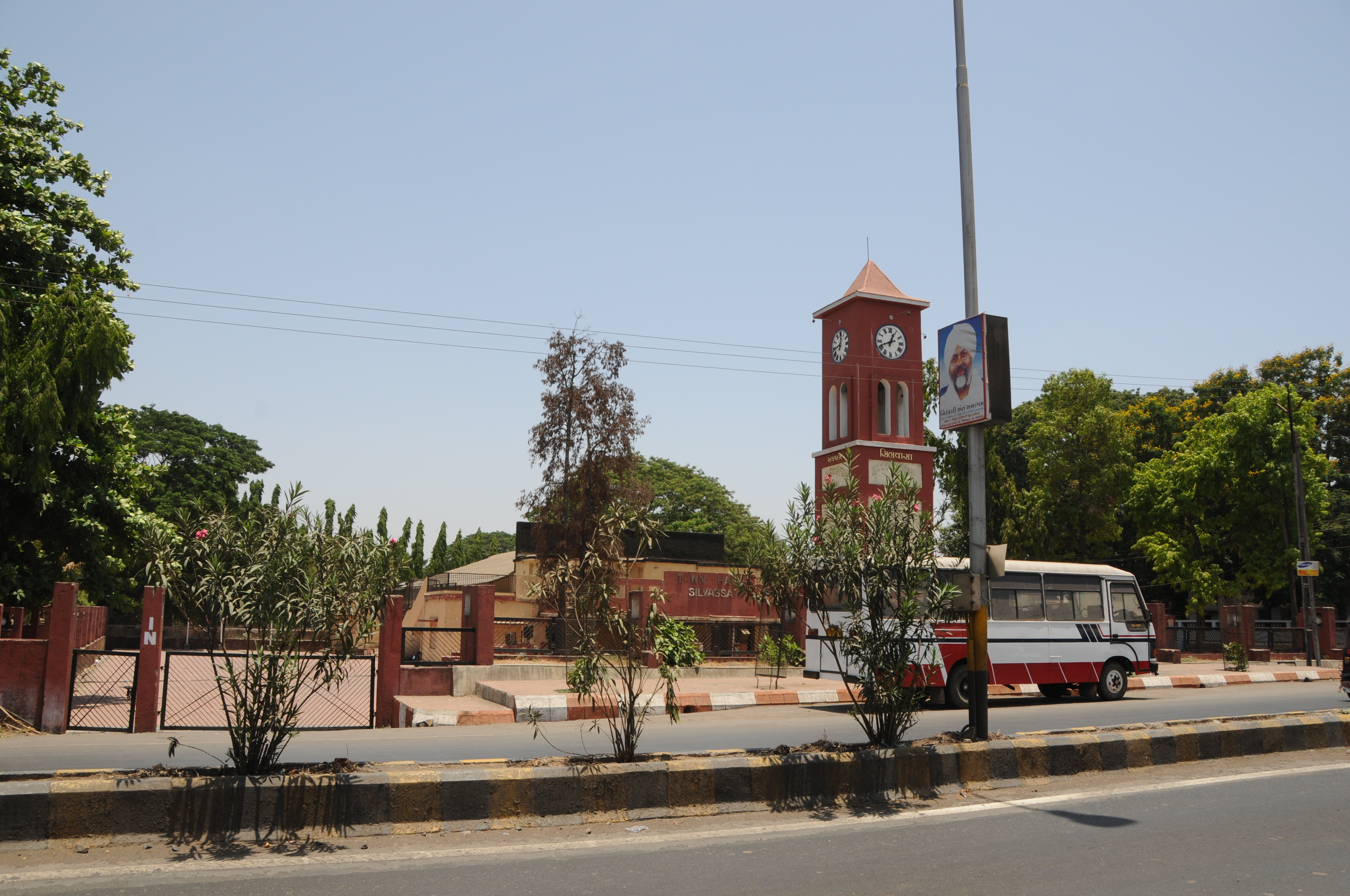 Street in Silvassa, Dadra and Nagar Haveli, India